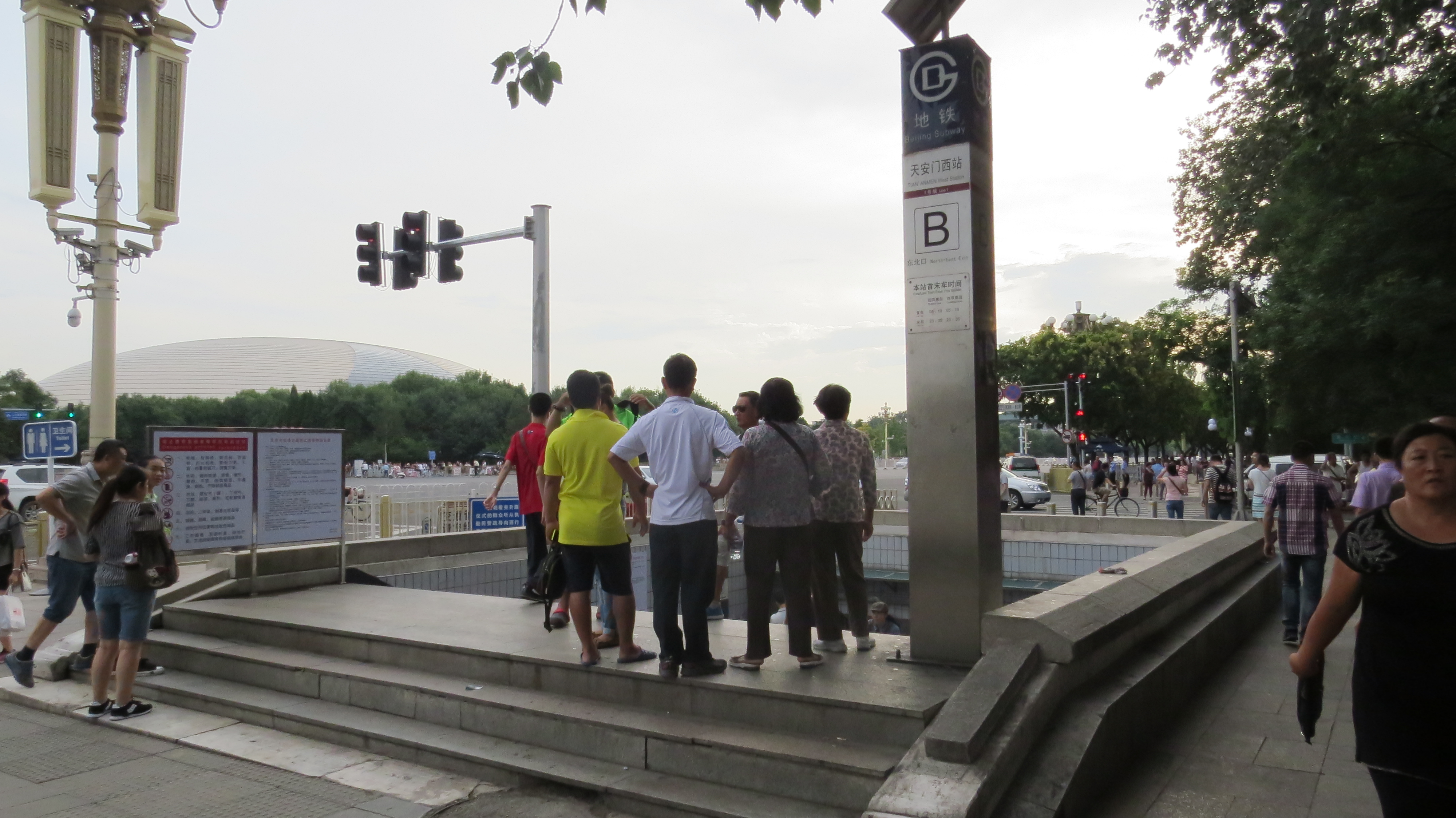 This channel is only for subway.